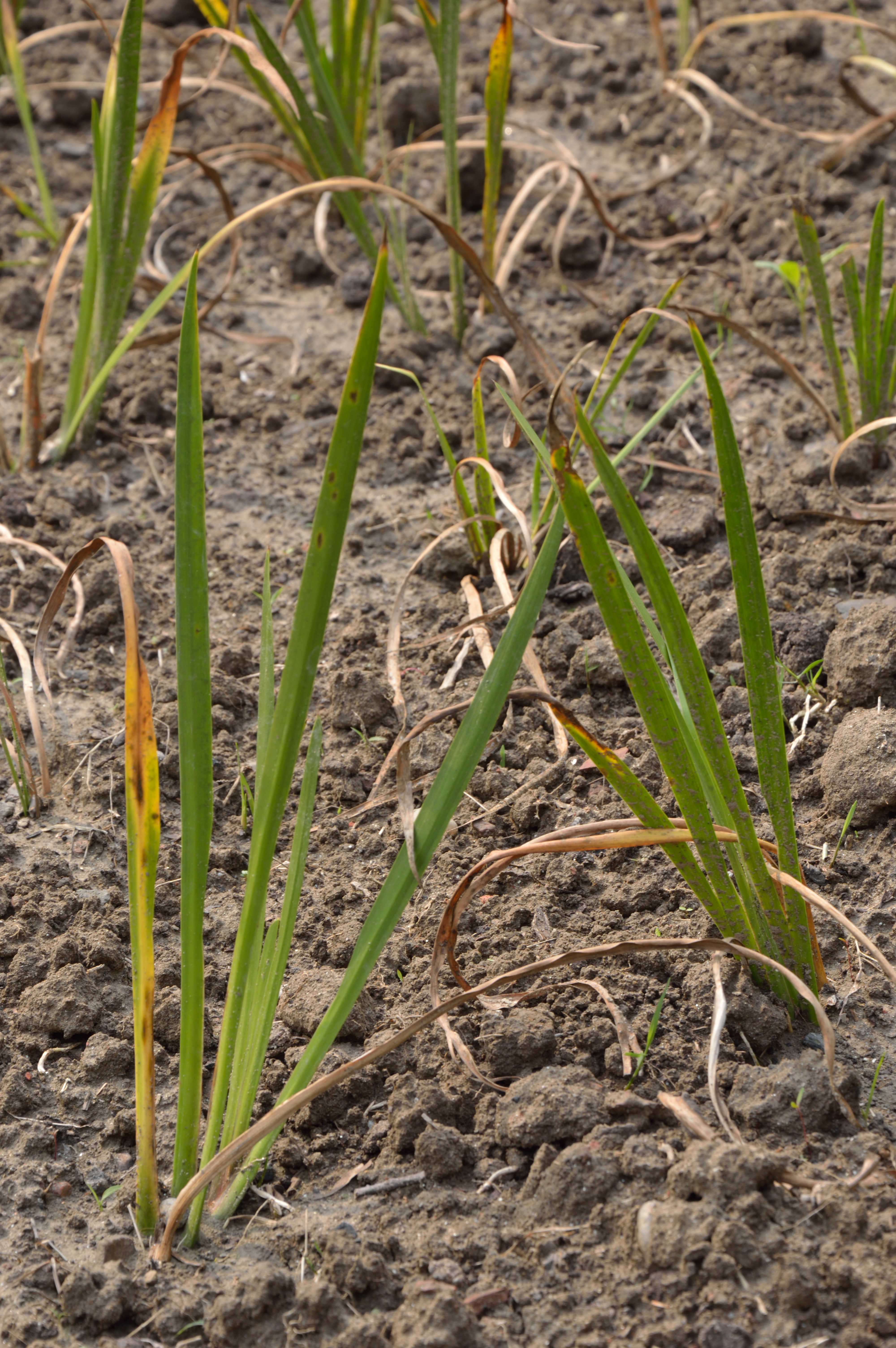 Photographs at The Agri-Horticultural Society of India, Alipore in Kolkata.